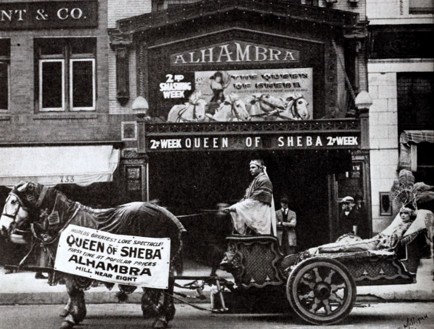 The Alhambra Theater in Los Angeles, California, showing the American drama film The Queen of Sheba (1921) and using a chariot as a promotion, on page 54 of the February 11, 1922 Exhibitors Herald.